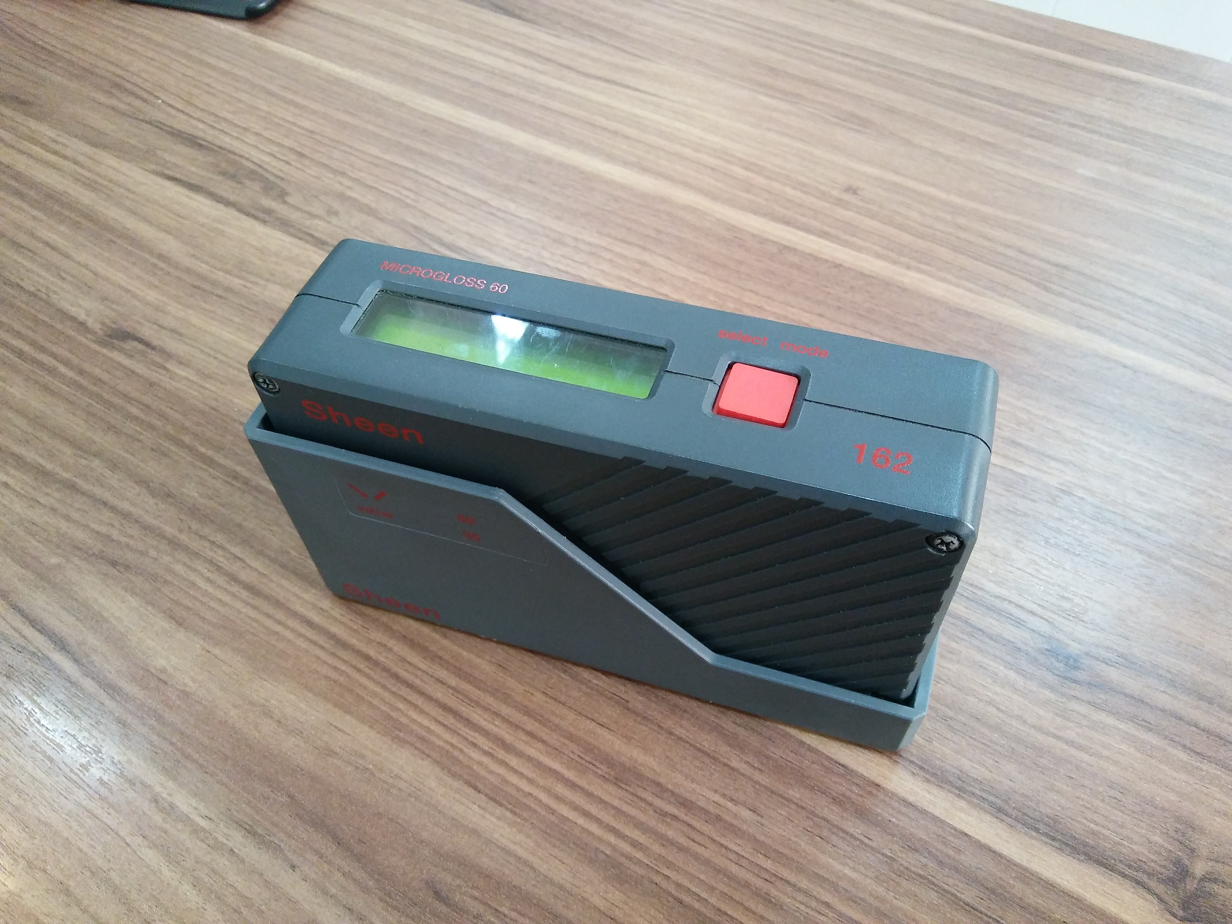 Glossmeter ; Sheen Microgloss 162